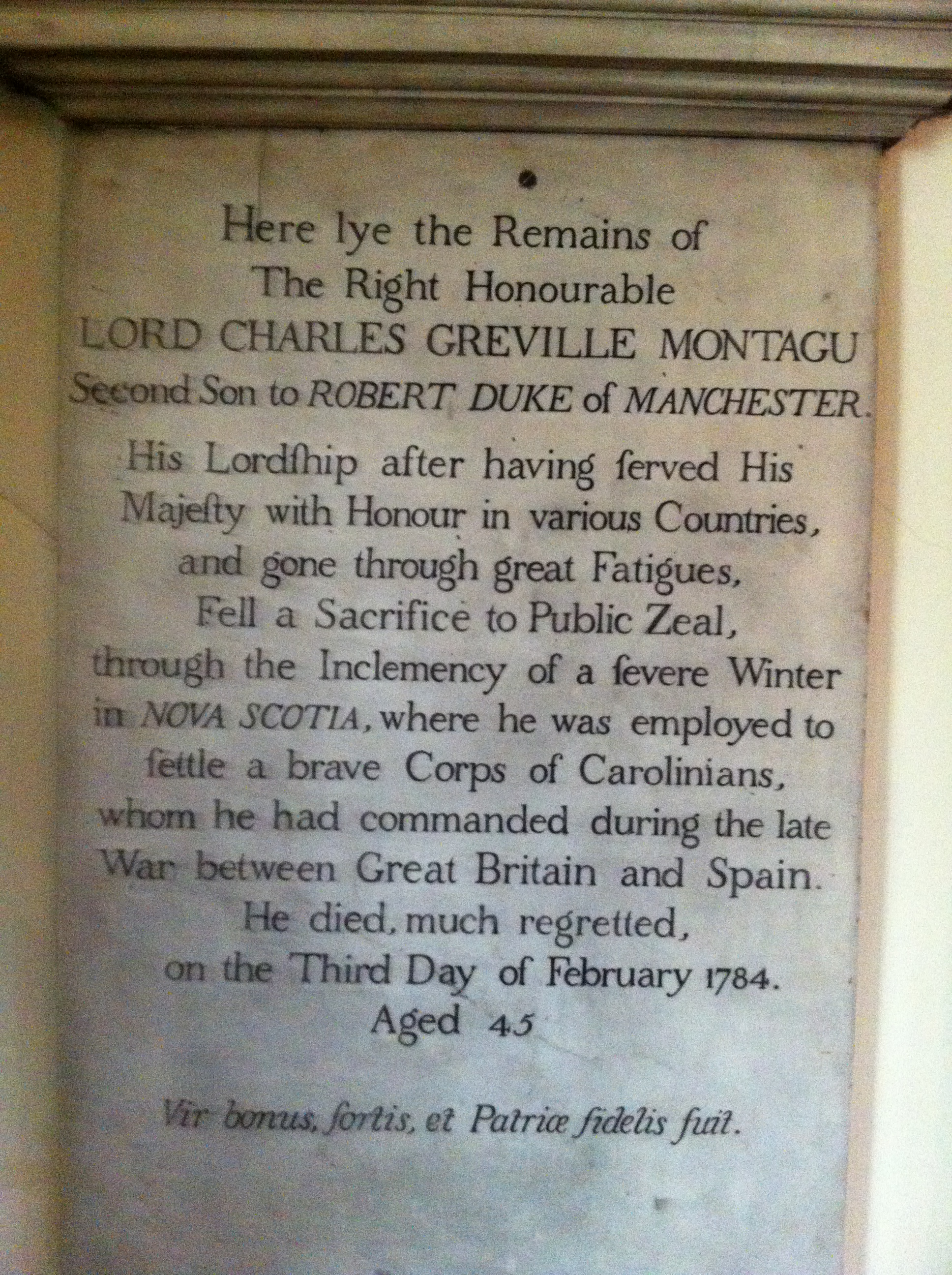 Charles Greville Montagu St Pauls Church, Halifax, Nova Scotia